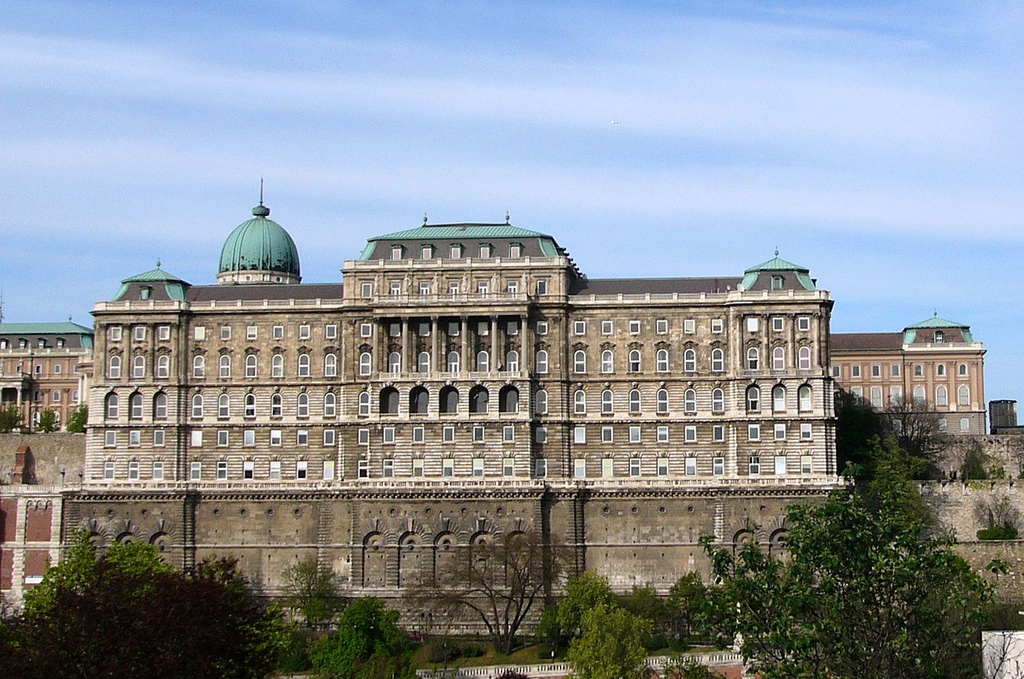 The National Széchényi Library in Budapest